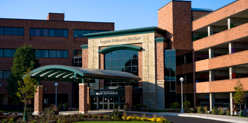 Photograph of Rochester General Hospital, an affiliate of Rochester Regional Health